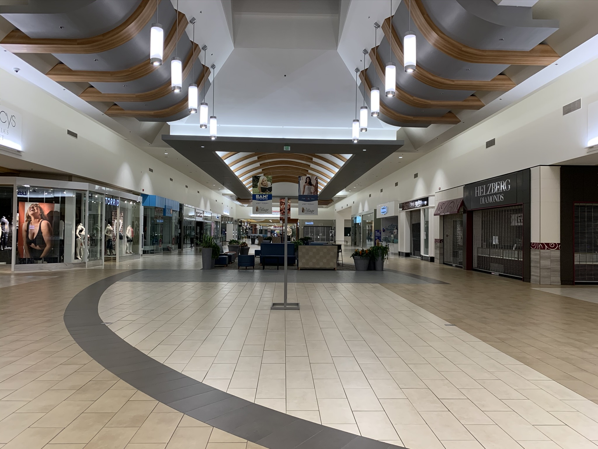 Interior corridor at the Spotsylvania Towne Centre in Fredericksburg, Virginia.